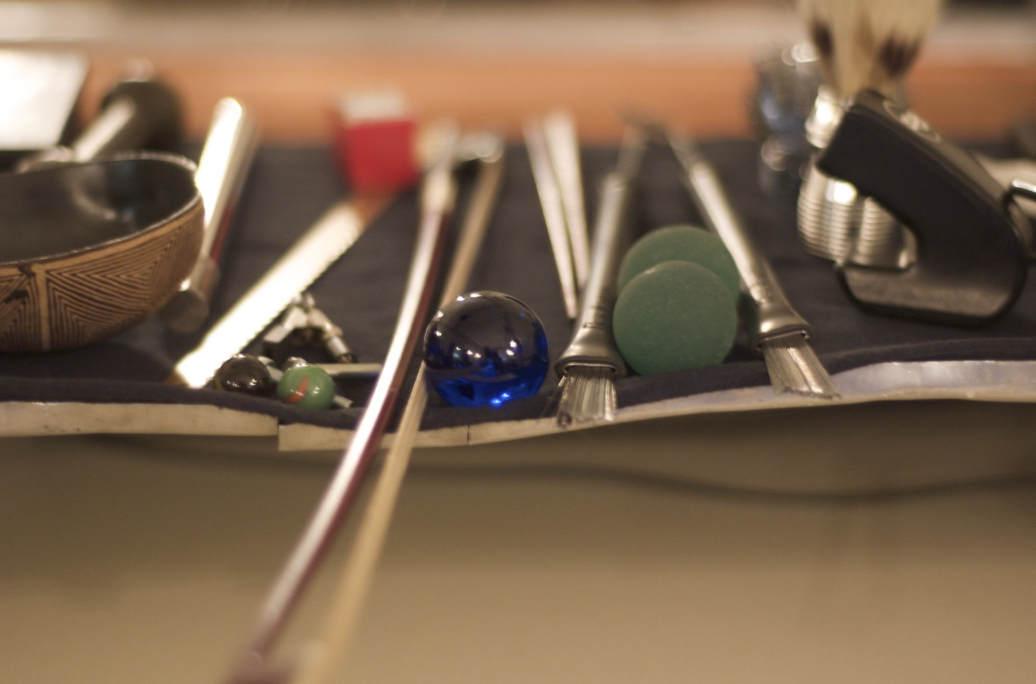 Goethe-Institut Boston, September 28, 2010 (photo: Susanna Bolle)